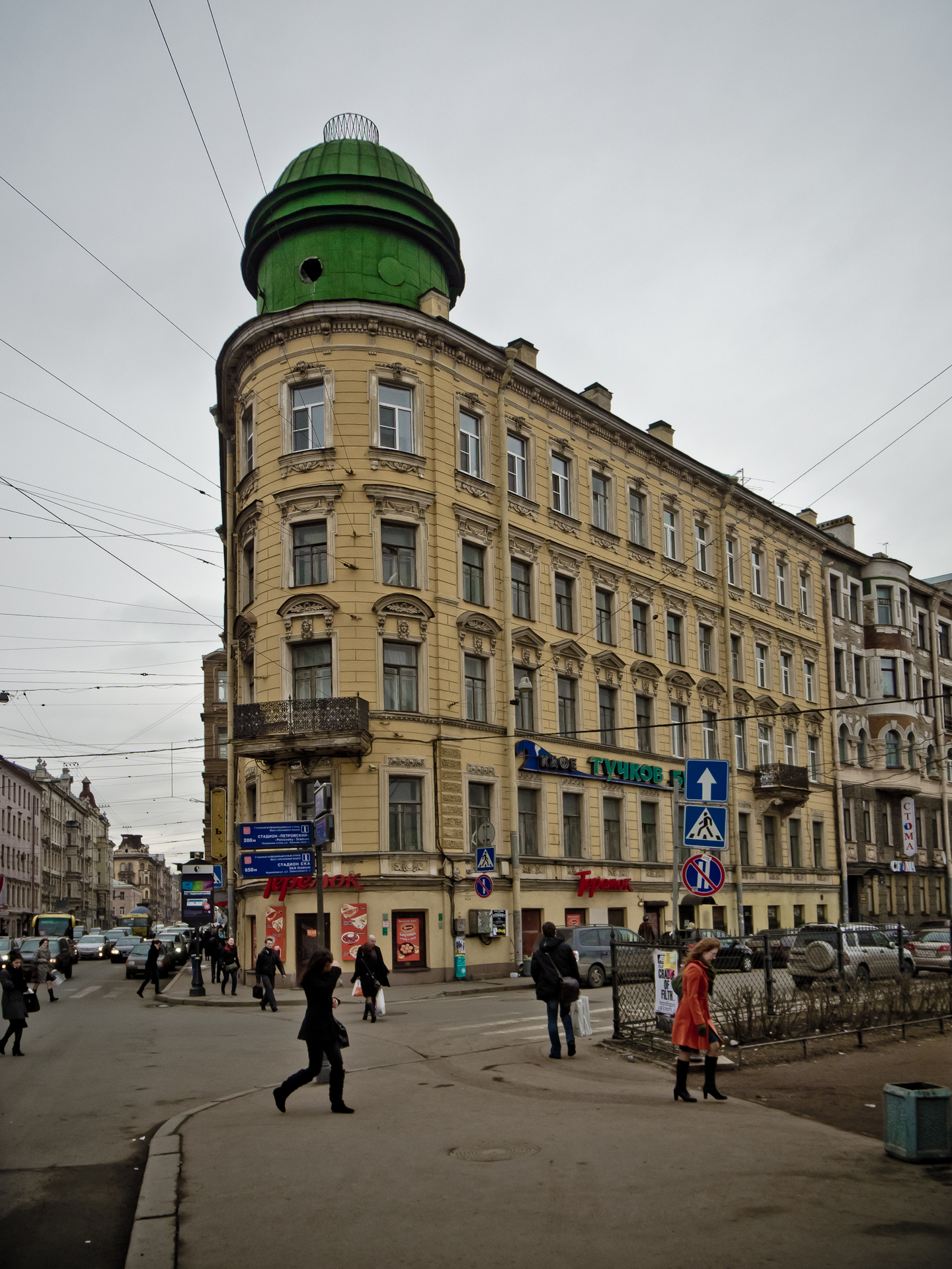 Saint Petersburg, 33, Blokhina street, 1A, Bolshoy prospekt